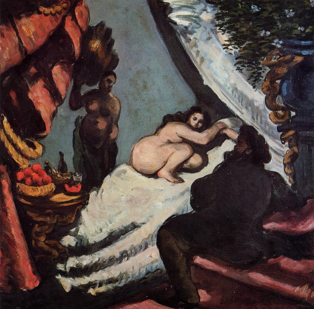 Paul Cezanne's art